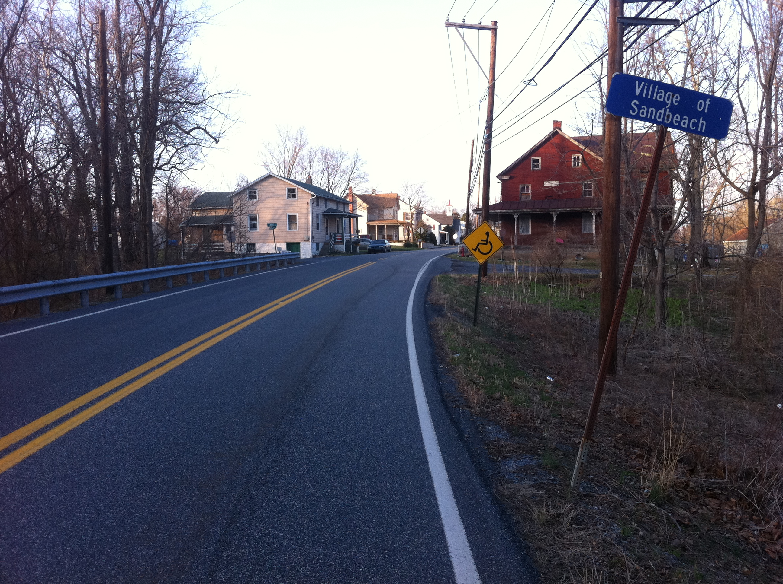 Entering the Village of Sand Beach